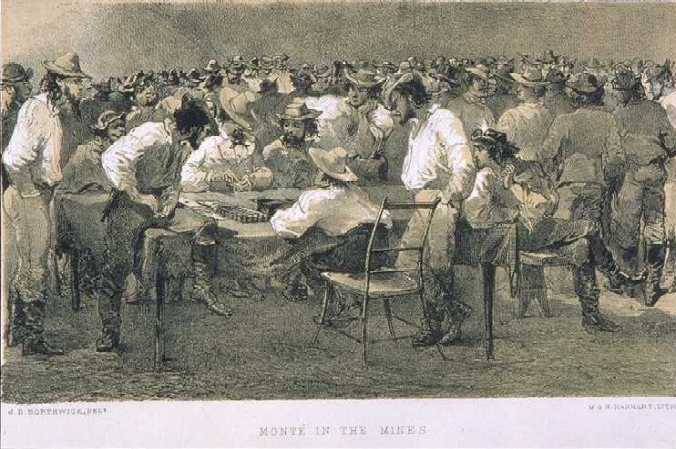 J. D. Borthwick, an Englishman searching for his fortune in the Gold Rush, came to California in 1851. He observed the wild and chaotic life of the era, and portrayed the gambling element of it in several of the lithographs illustrating his narrative.